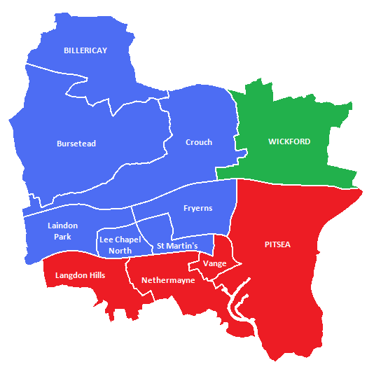 Wards of the Basildon District and the UK parliamentary constituency they fall into. Blue: Basildon and Billericay. Red: Basildon South and Thurrock East. Green: Rayleigh and Wickford